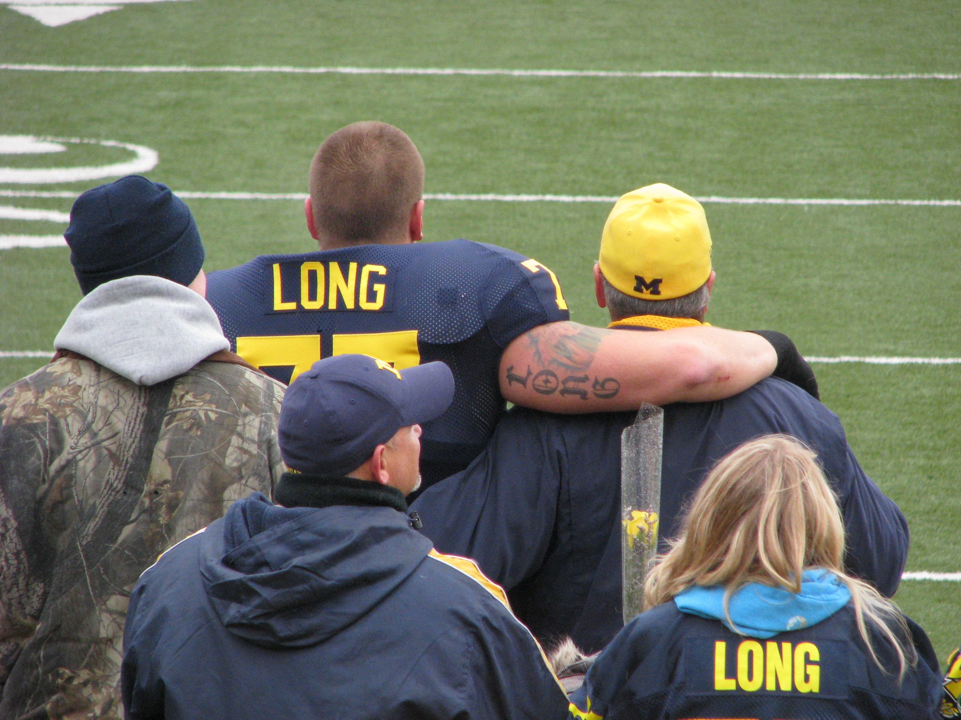 Jake Long on Senior Day 2007